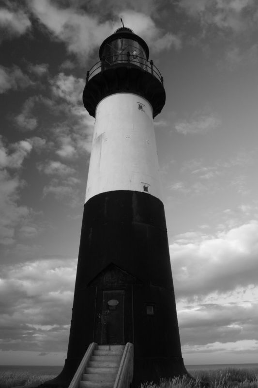 Pembroke lighthouse, west of Stanley, Falkland Islands